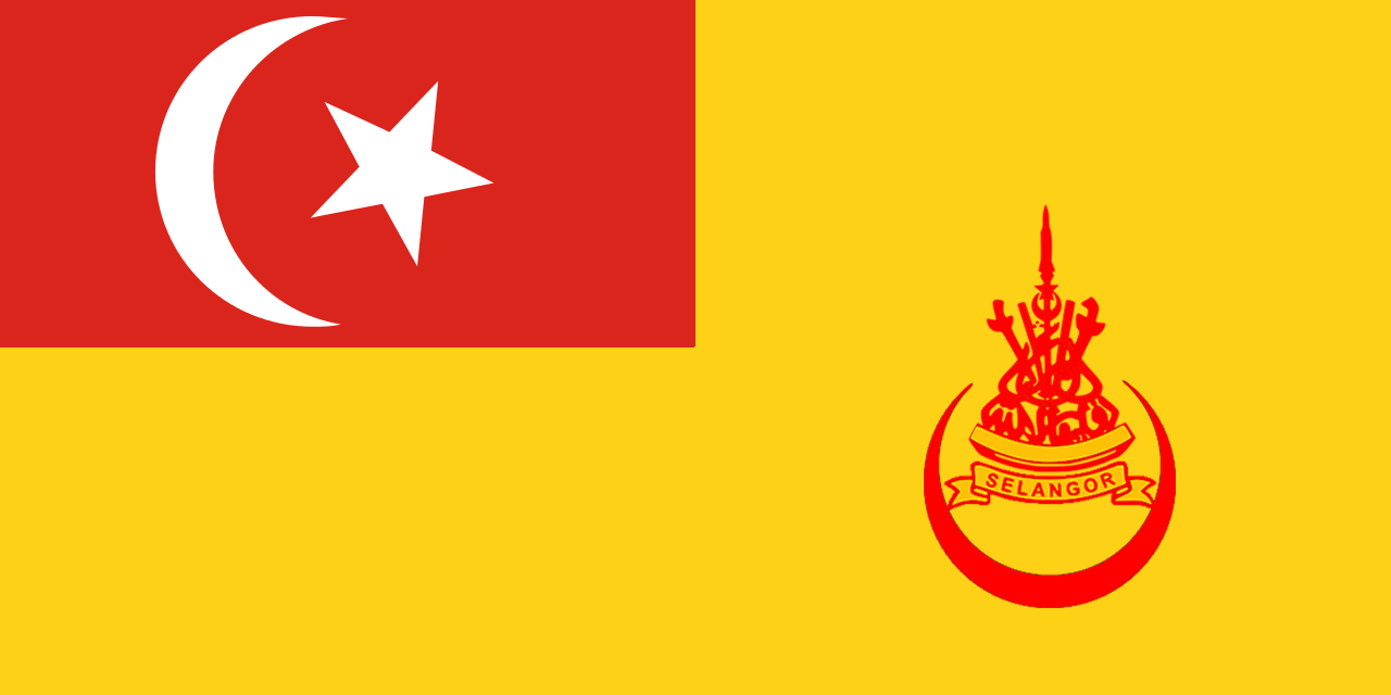 Flag of Sultan Selangor , as according to